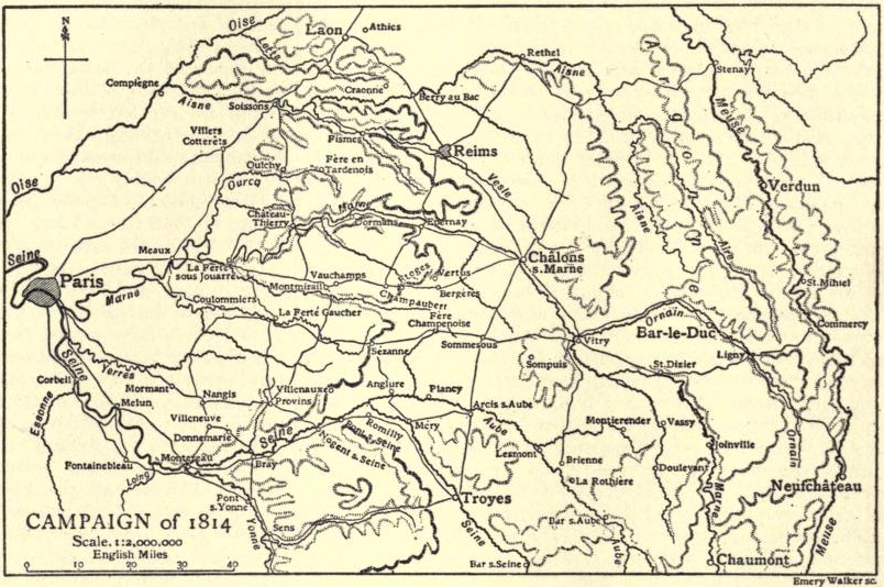 Napolonic Campaigns:Campaign of 1814